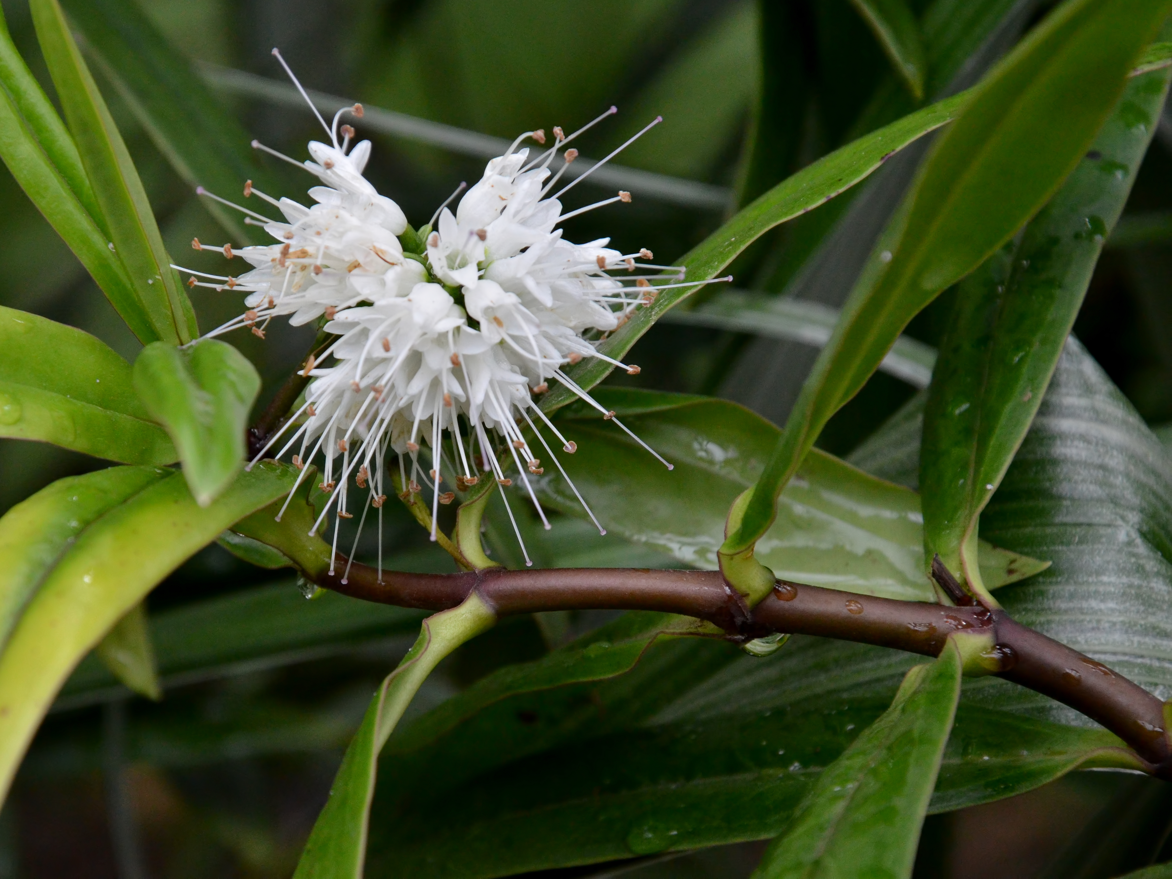 Bamboo iris at Kew Gardens, London, UK.